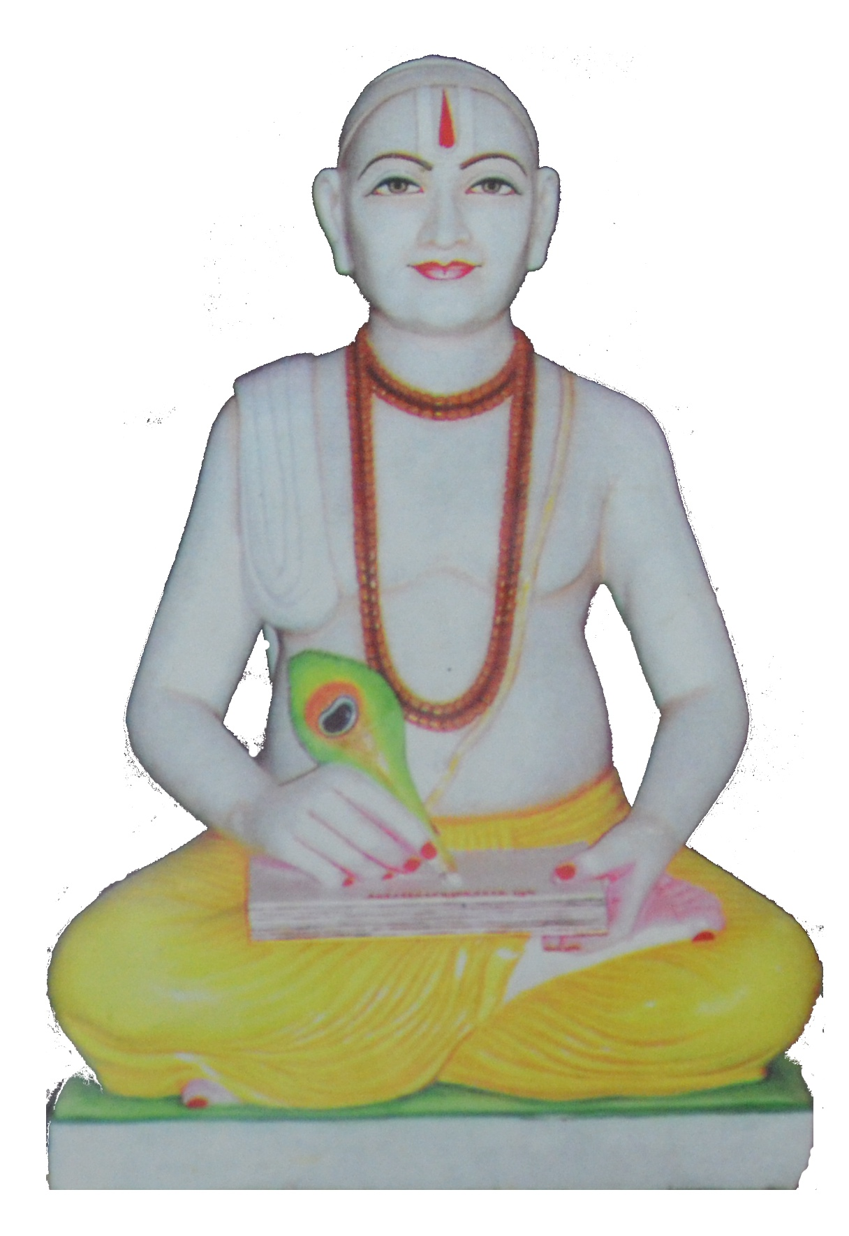 Statue of Gosvami Tulsidas at Manas Mandir, Chitarkuta, Satna, India